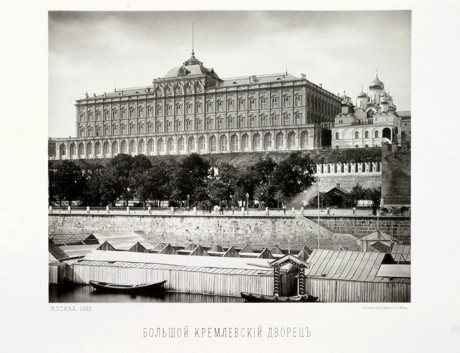 Plate 29: Grand Kremlin Palace.